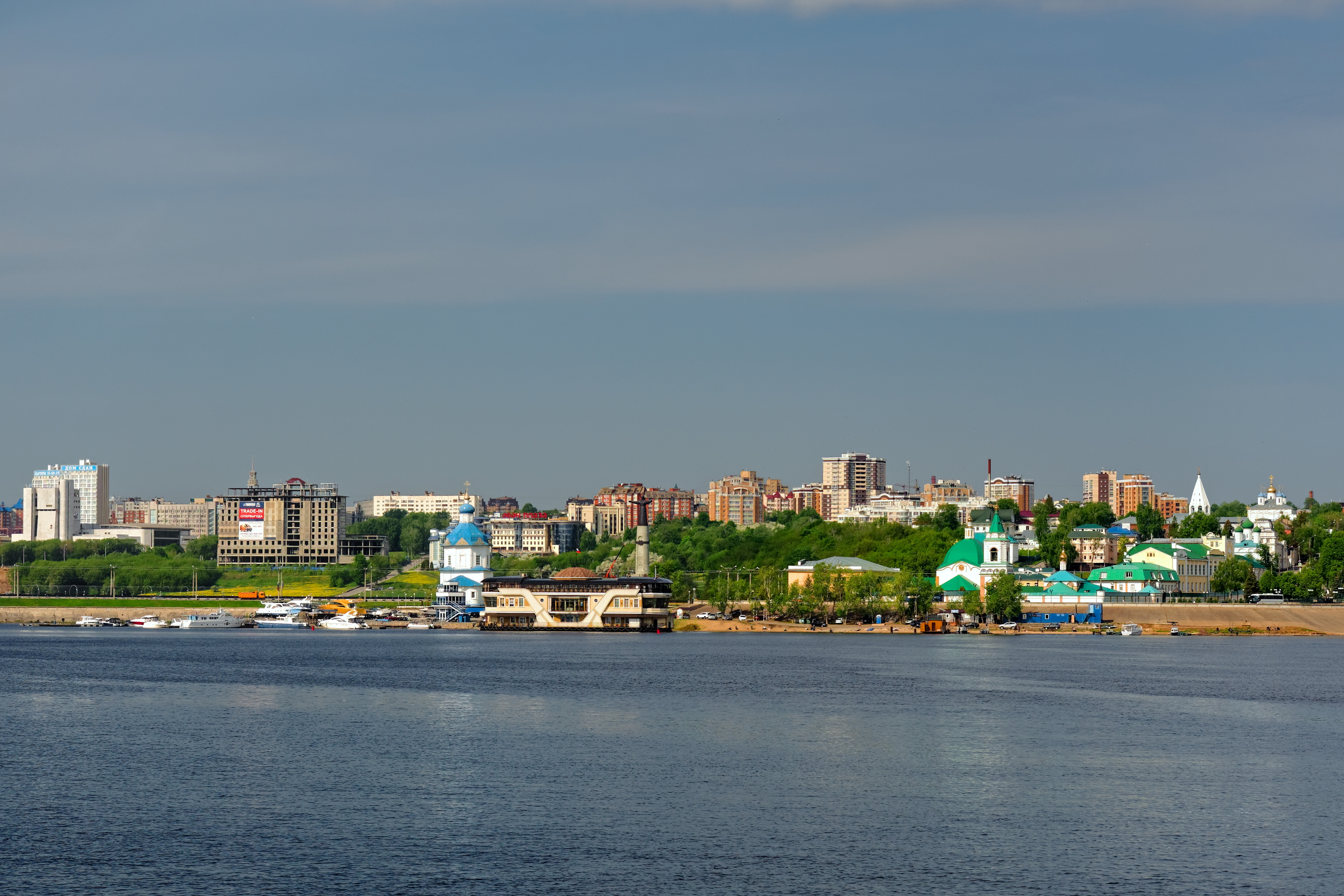 Cheboksary